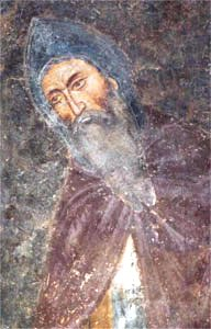 Simon/Stefan Prvovenčani, second half of the XIII century, fresco from Sopoćani monastery, Serbia